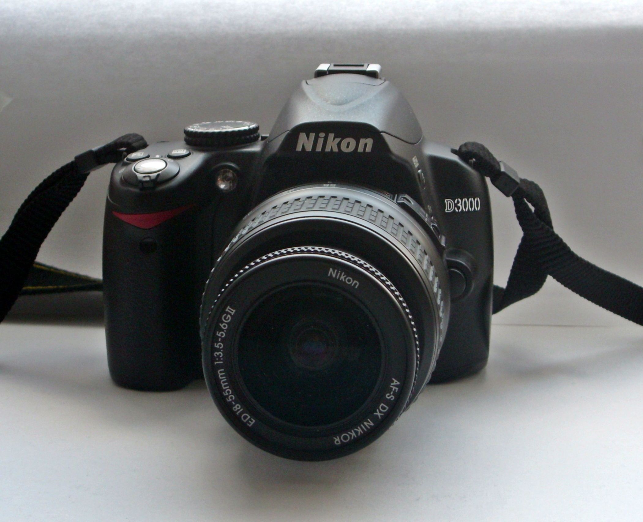 A Nikon D3000 with a AF-S DX Nikkor 18-55mm f/3.5-5.6G ED II lens